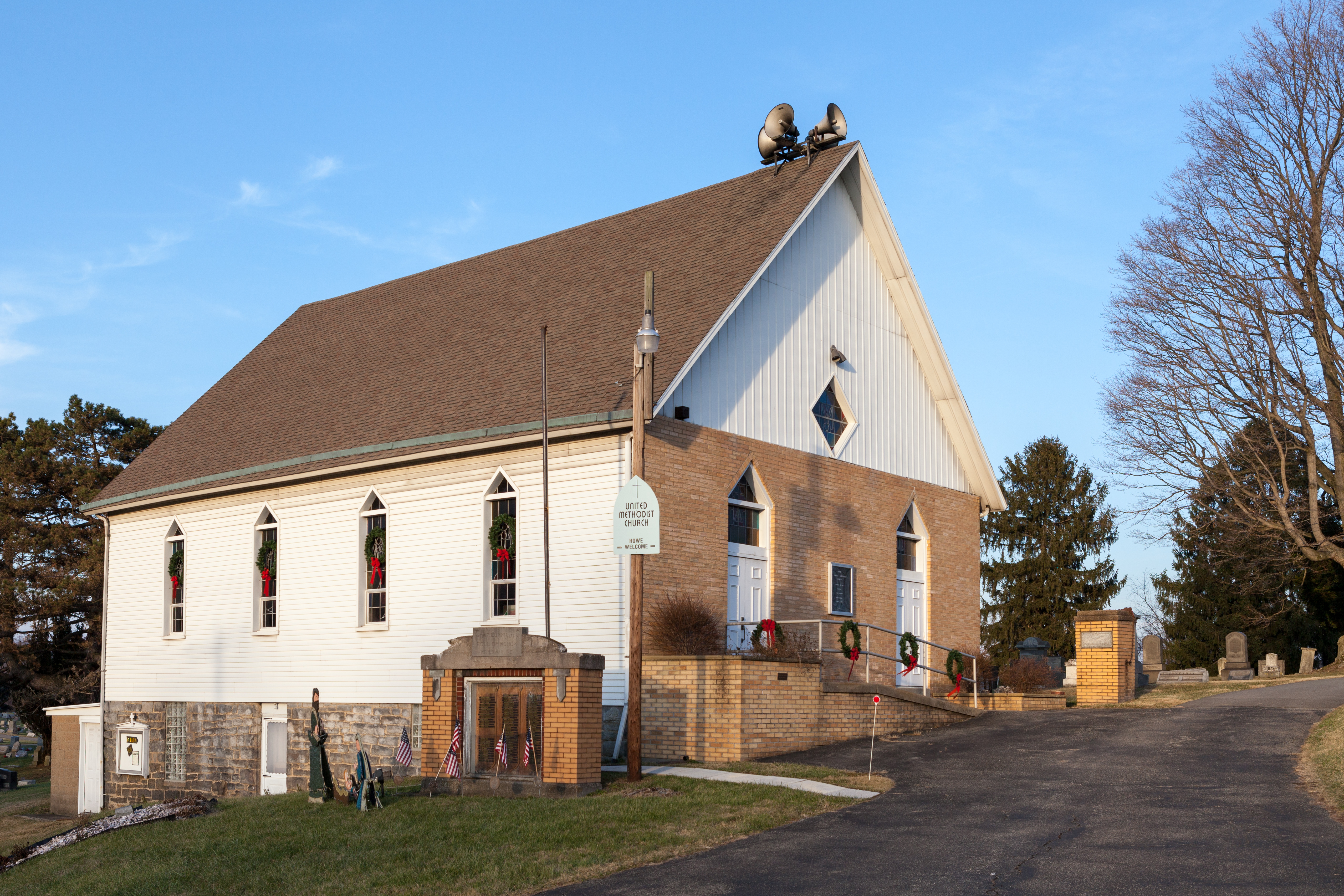 Howe United Methodist Church in Long Branch, Pennsylvania at 519 Dally Rd Coal Center, PA